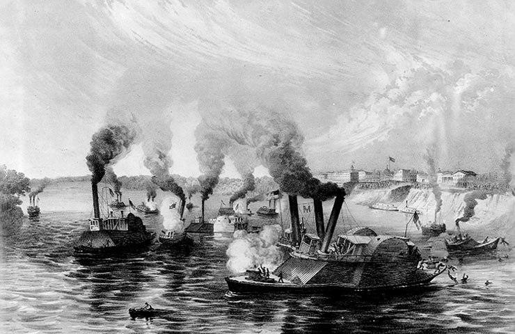 "The Total Annihilation of the Rebel Fleet by the Federal Fleet under Commodore Davis." "On the Morning of June 6th 1862, off Memphis, Ten." Lithograph by Middleton, Strobridge & Co. In the foreground, the print depicts the Confederate ships (from left to right): General M. Jeff Thompson (shown sinking); Little Rebel (shown burning); General Sterling Price; General Beauregard (shown being rammed by the Ellet Ram Monarch); General Bragg (shown aground) and Colonel Lovell (shown sinking). In the background are the Federal warships (from left to right): Queen of the West; Cairo; Carondelet; Louisville; Saint Louis; a tug; and Benton. The city of Memphis is in the right distance, with a wharf boat by the shore. Courtesy of the Naval Historical Foundation. Removed caption read: Photo # NH 42367 "The Total Annihilation of the Rebel Fleet ...", off Memphis, Tennessee, June 1862; THE TOTAL ANNIHILATION OF THE REBEL FLEET UNDER COMMODORE DAVIS [smaller illegible text] U.S. Naval Historical Center Photograph. Photo #: NH 42367